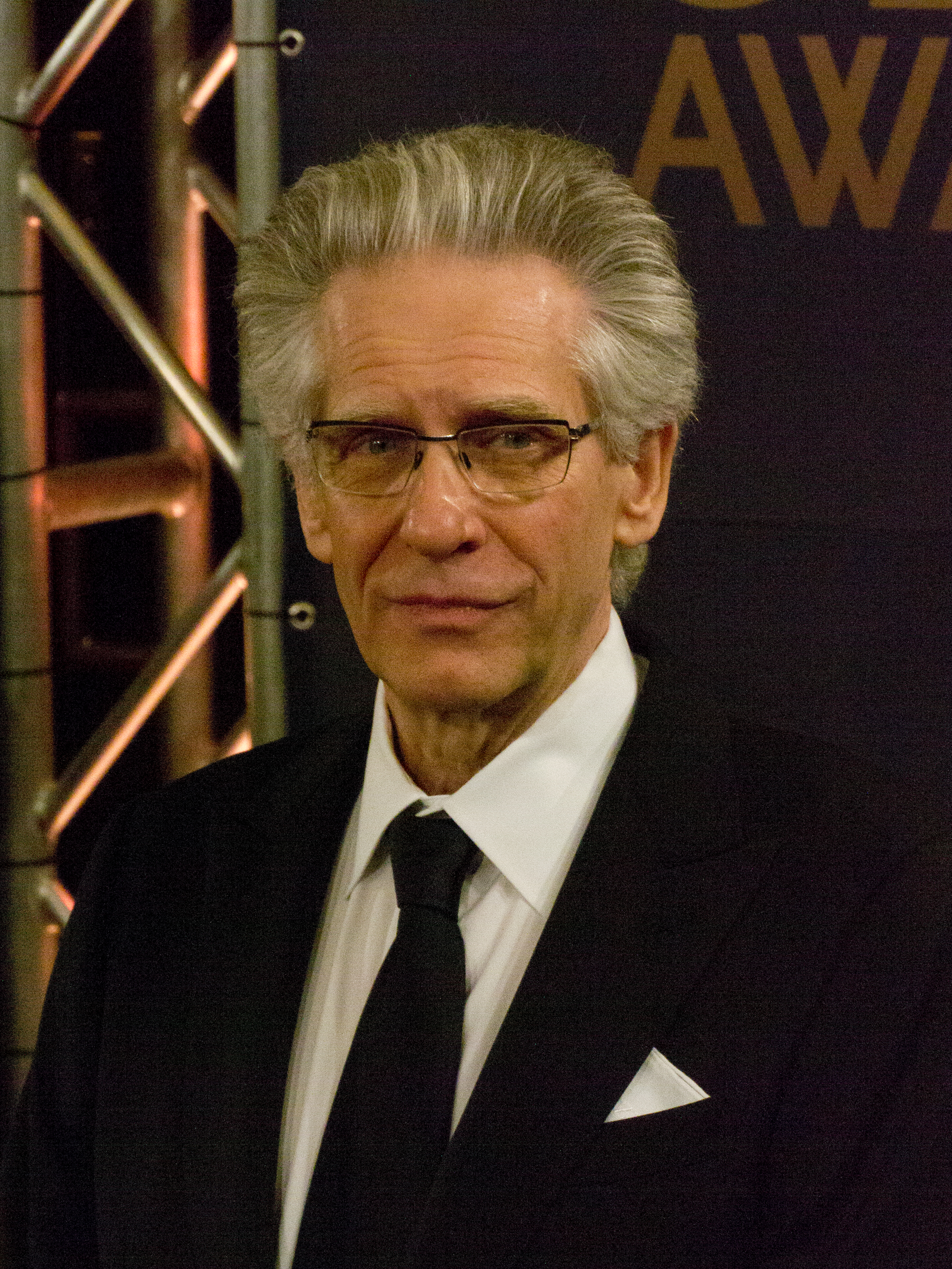 Director David Cronenberg on the red carpet at the 32nd Annual Genie Awards, Toronto, Canada.